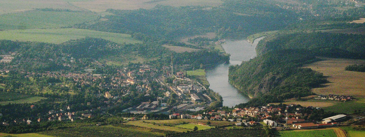 Aerial photography of a Libcice n./V. town, Vltava valley and a Vetrusice village in Central Bohemia